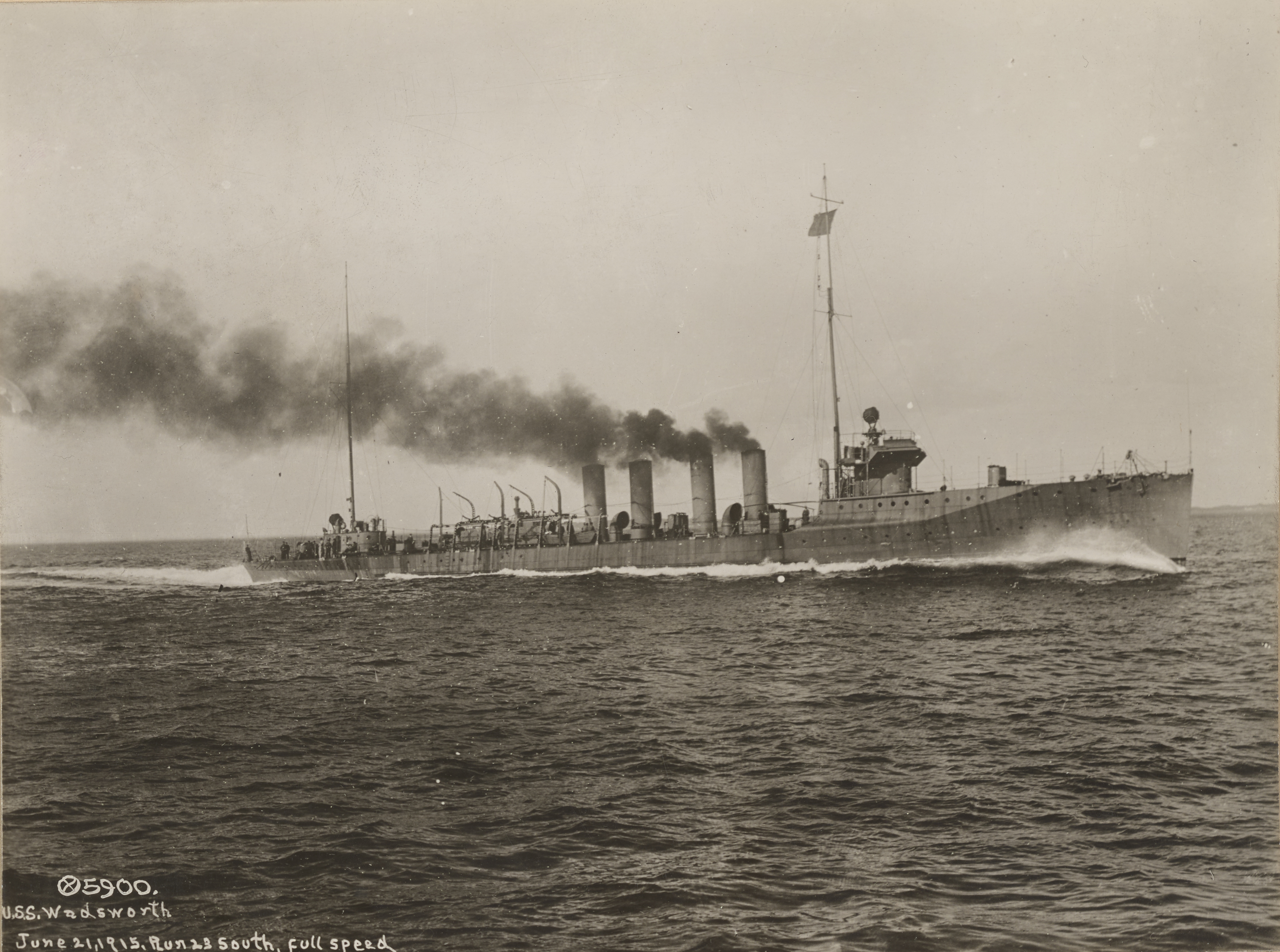 USS Wadsworth during trials, run 23 south at full speed.